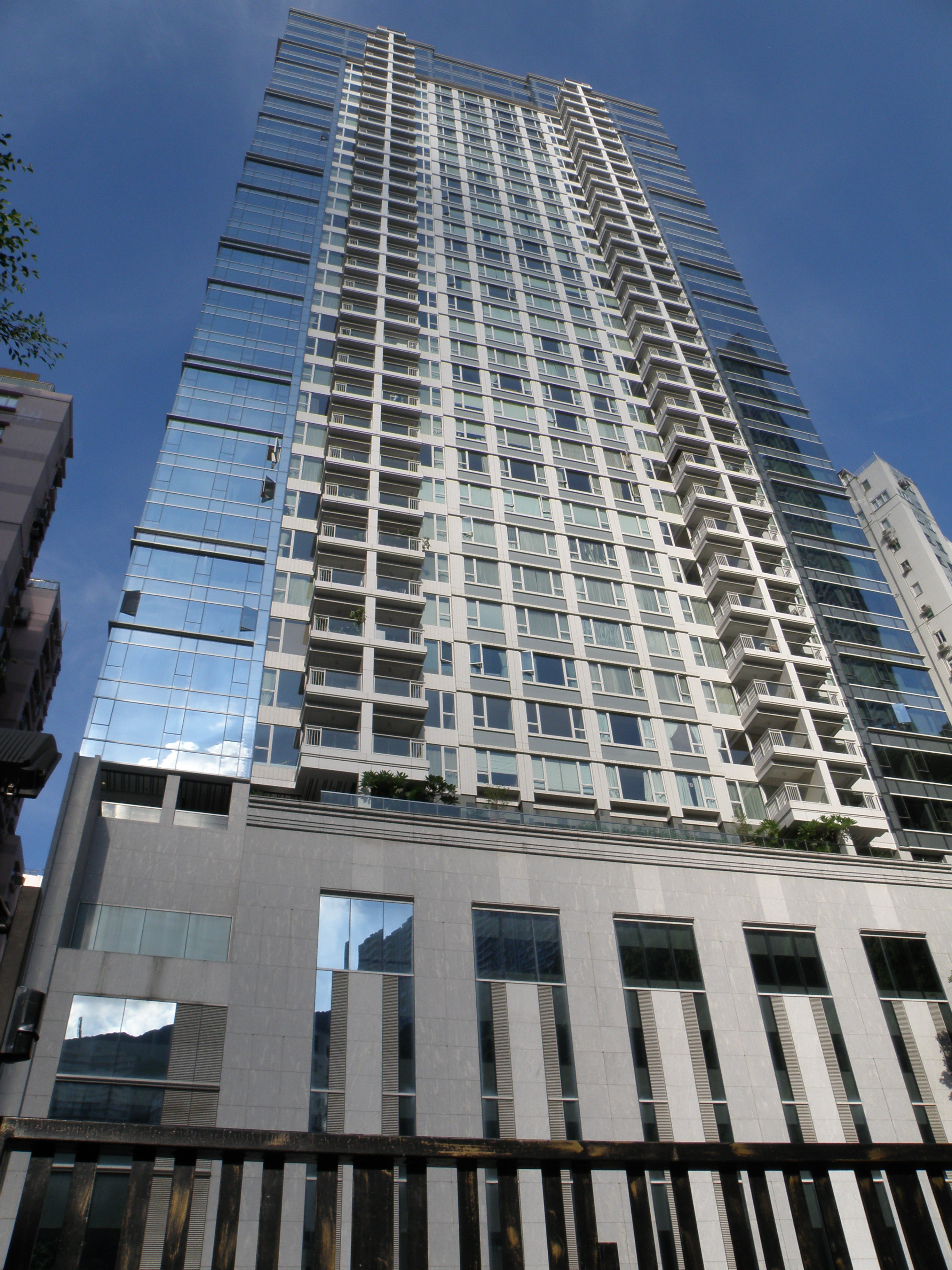 The Altitude in Happy Valley, Hong Kong.